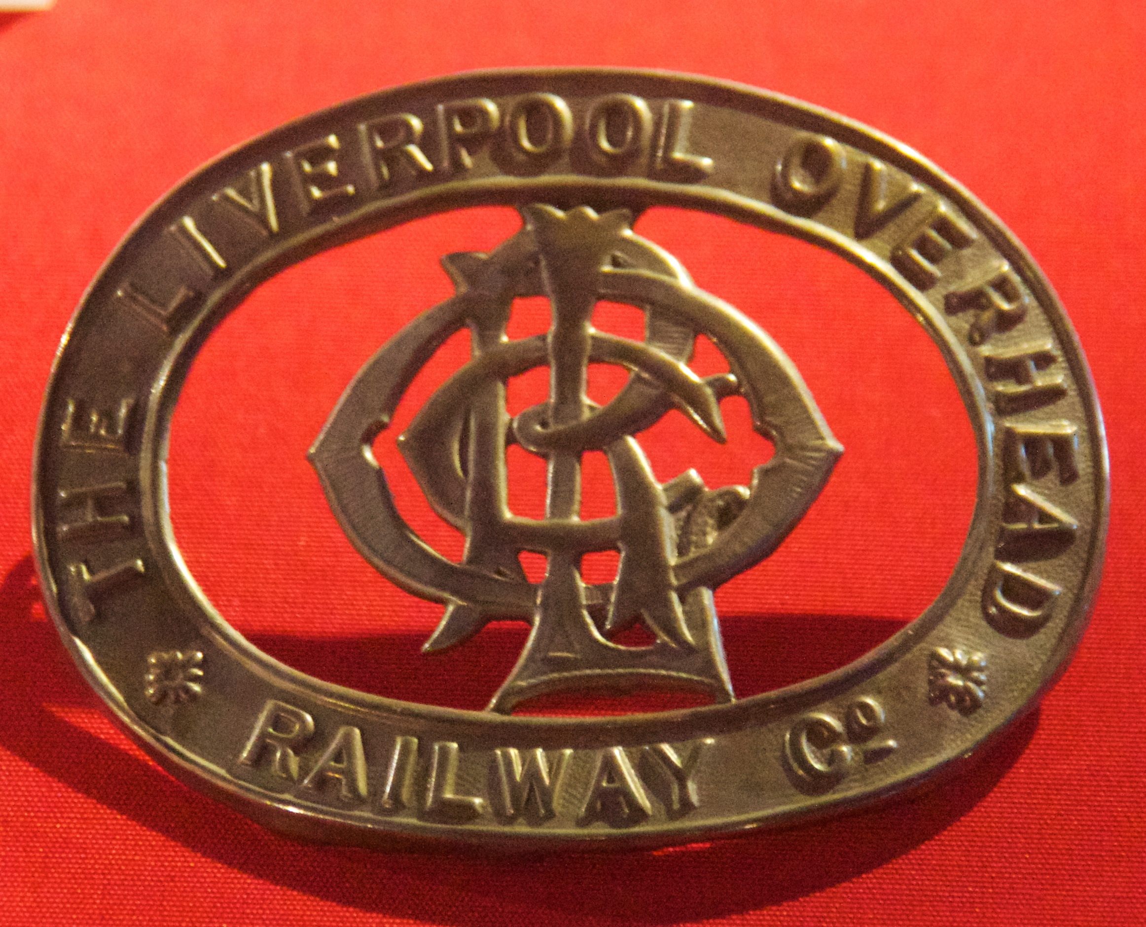 Cap badge. Belonged to Chief Inspector Joe Harrison. Lent by Mr Hughes. On display in the Museum of Liverpool.